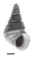 Black-ang white photo of an apertural view of the shell of Margarya mansuyi (KIZ-DLN2007008), Lake Xingyun. Scale bar is 1 cm.